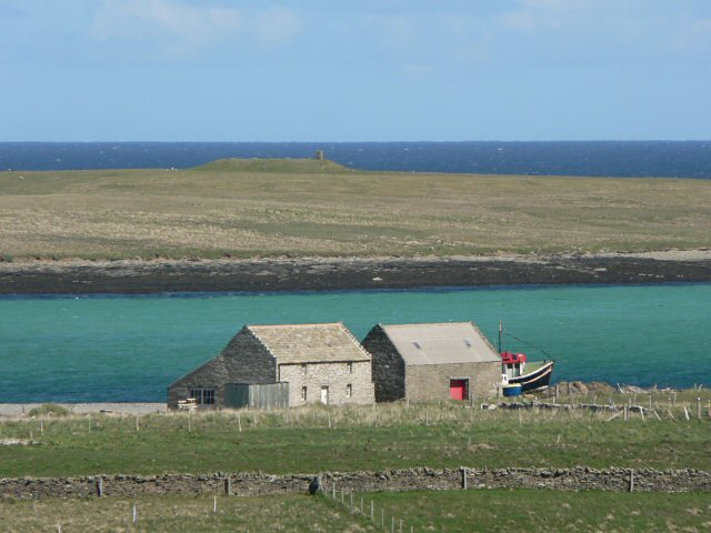 Buildings at the old pier, Papa Westray. This pier was used by a weekly steamer before the pier at Moclett was built in 1970. It is still used by local lobster boats. Beyond is the Holm of Papa with its cairn clearly visible.